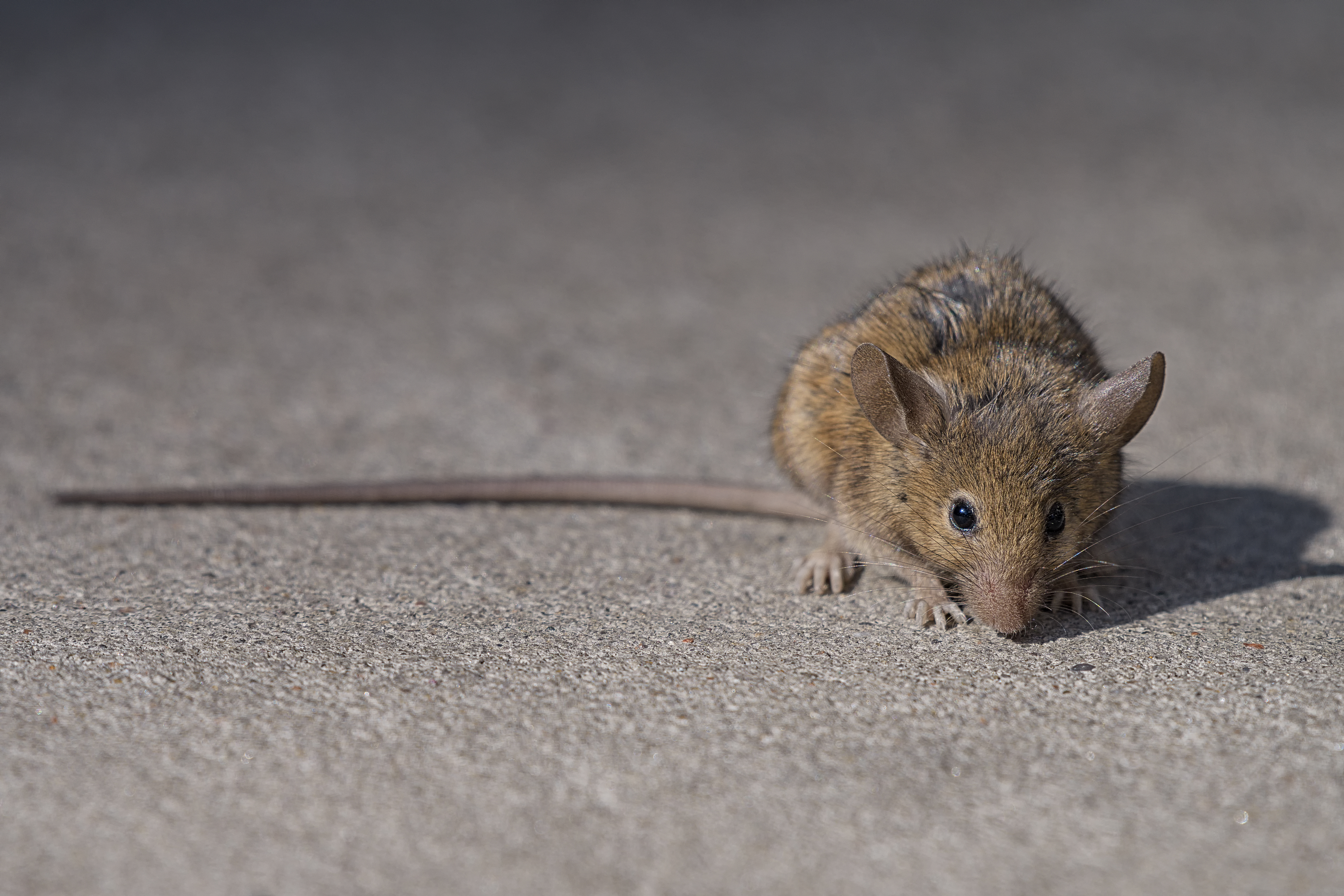 A brown rat on 79th Street in New York,NY